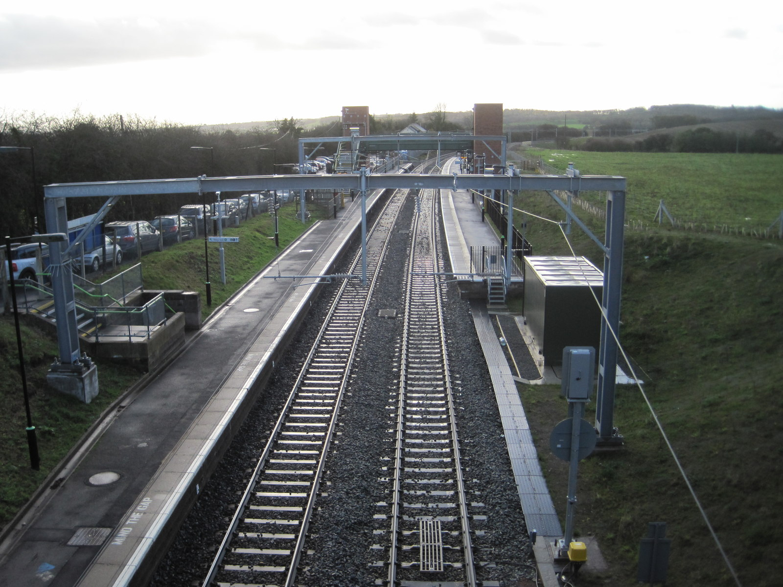 Alvechurch railway station, Worcestershire Opened in 1859 by the Midland Railway on the "Gloucester Loop" line from Birmingham to Gloucester via Redditch and Alcester. Redditch became the terminus when the southern part of the loop was severed to passengers in 1962. View south towards Redditch. The original platform was adjacent to the white buildings in the distance. It was relocated closer to the camera position in 1993. A second platform was added in 2014.